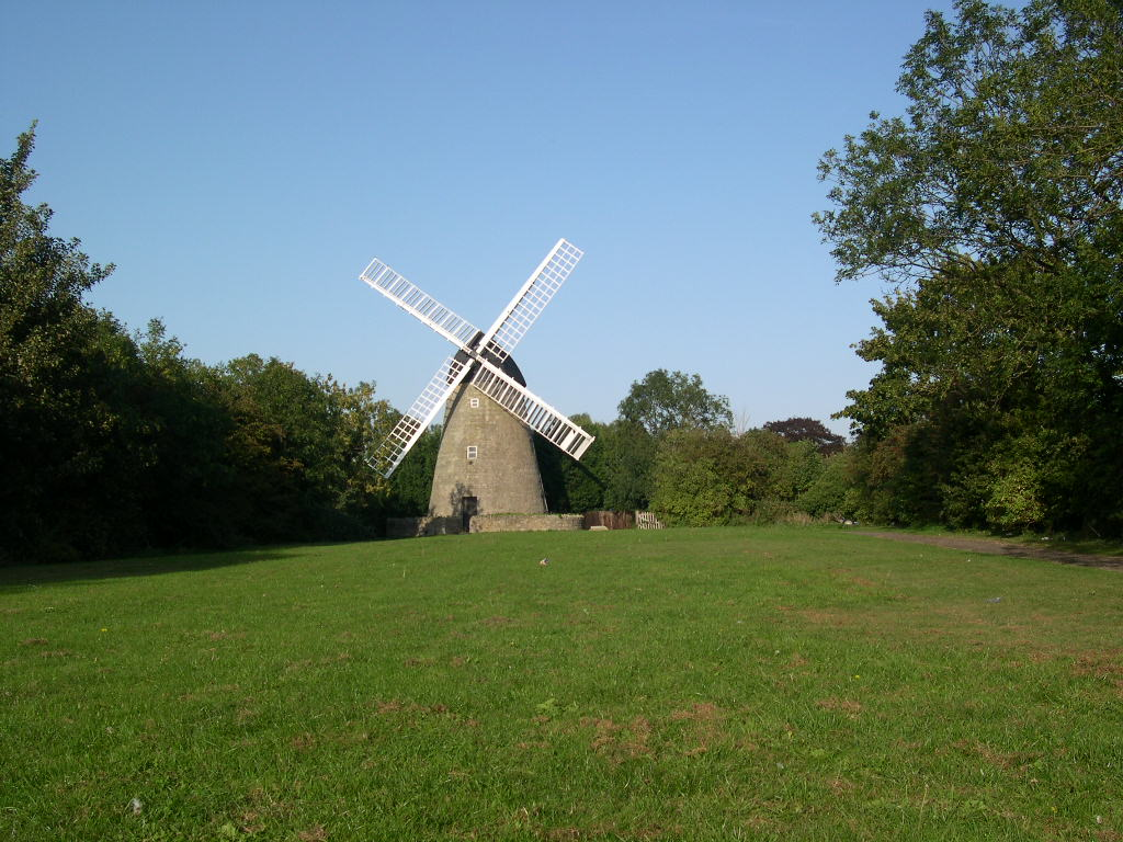 grain miller's wind mill in New Bradwell, Milton Keynes